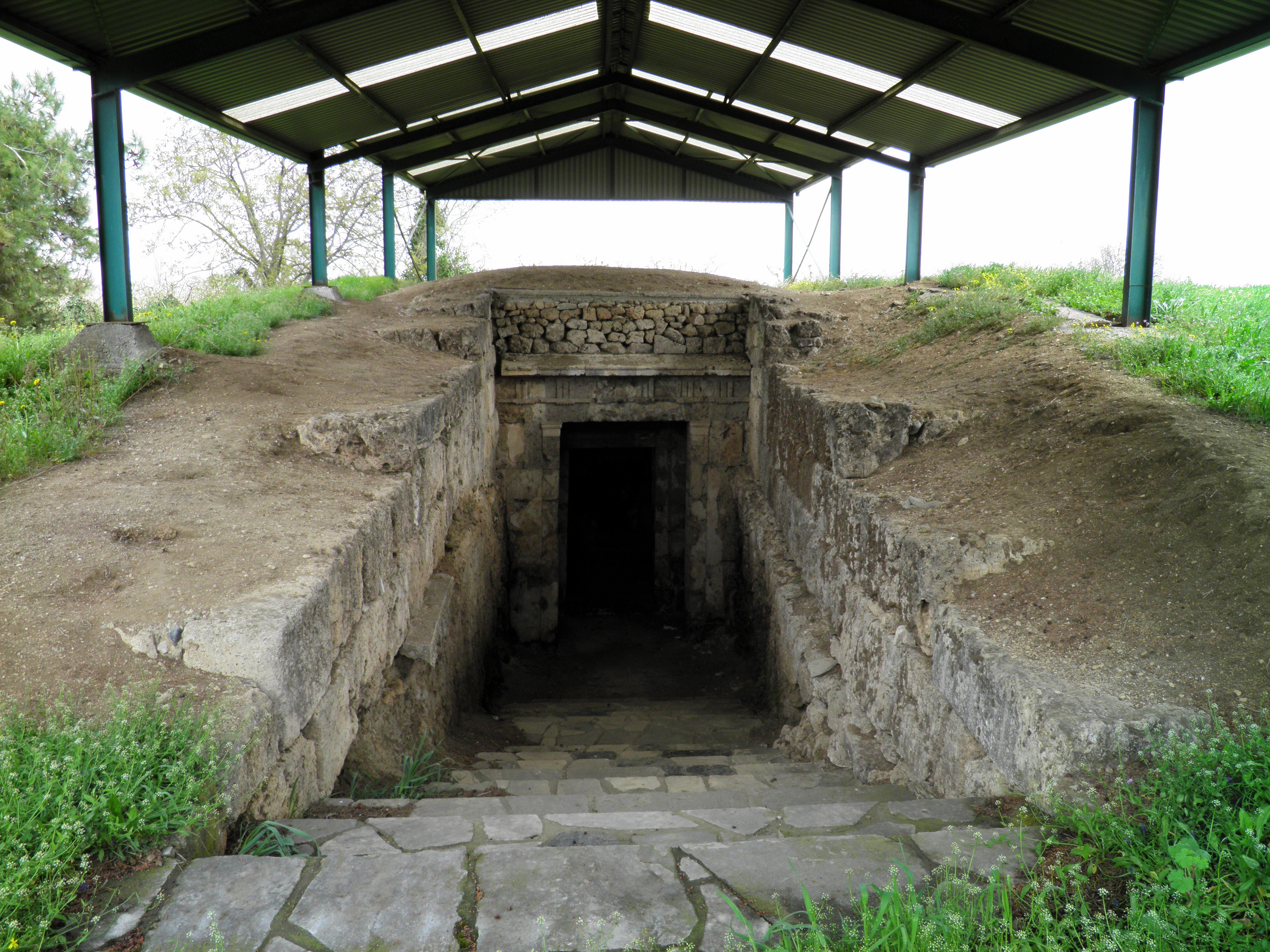 It is a small two-chamber tomb with a simple Doric facade. Of the painted decoration which existed in its interior, nothing has survived today. Only from a drawing from the initial publication of the monument may we now see a beautiful mural which represented a Macedonian horse rider attacking a Persian, who, terrified, is trying to escape. The tomb's current state is due to reconstructive work which was performed during the period 1970-1971.